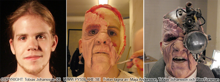 Showing the process of applying a foam-latex mask onto the face. Copyright: Tobias Johansson, Photographers: Maja Andersson, Tobias Johansson and Alex Forsman